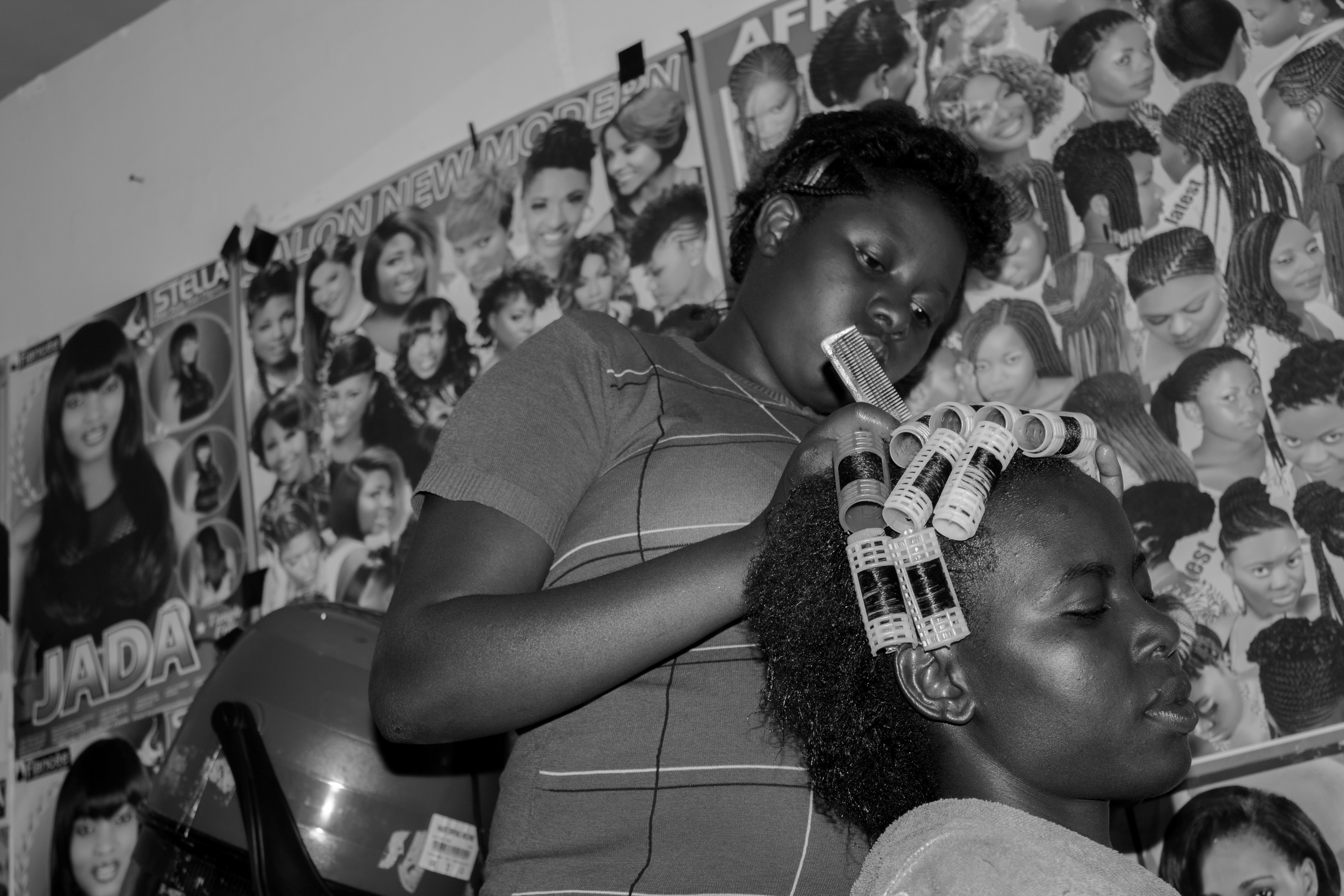 This is an image of "African people at work" from Tanzania